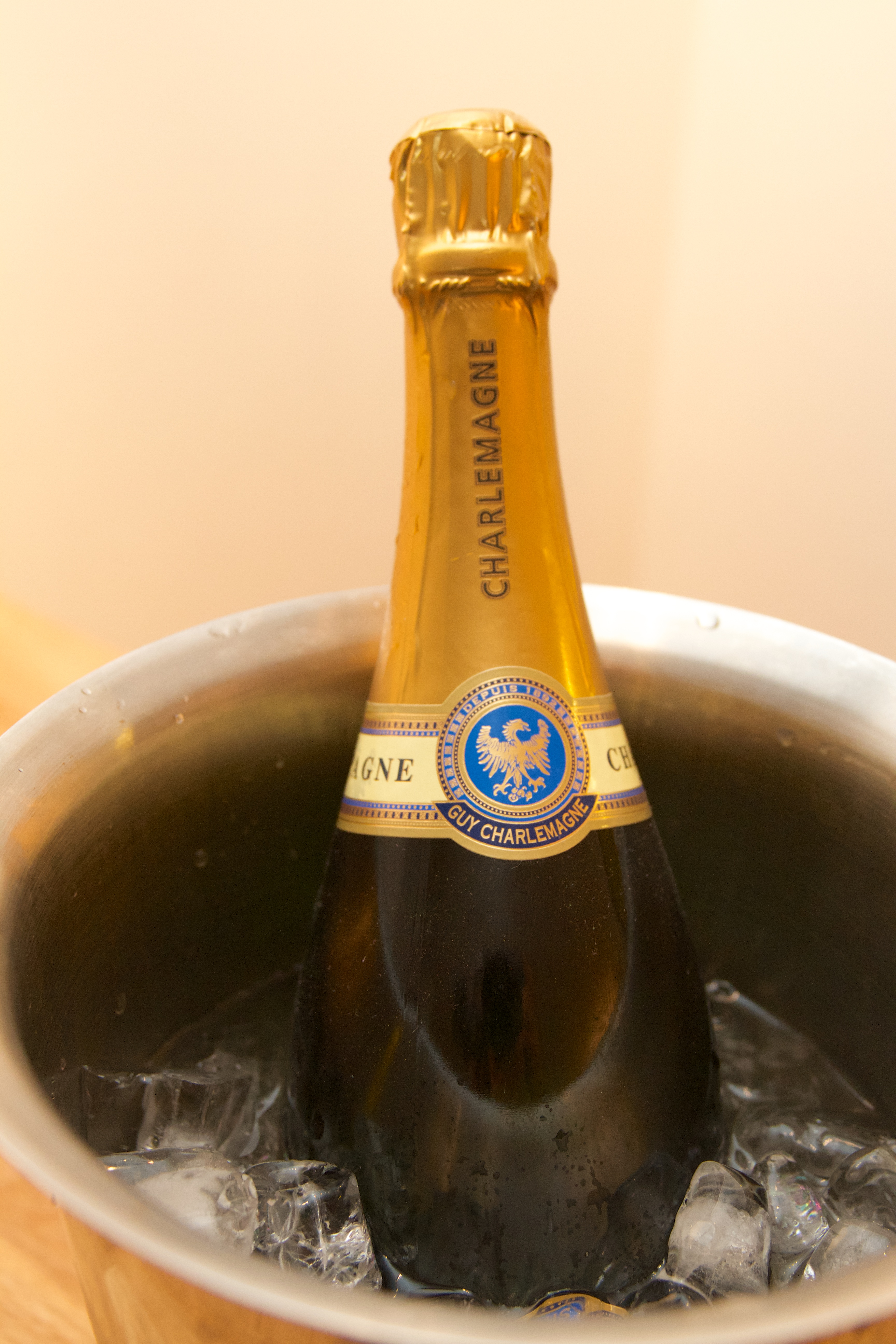 A bottle of Champagne Guy Charlemagne in a cooler.